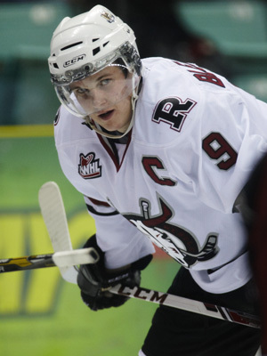 A picture of Conner Bleackley